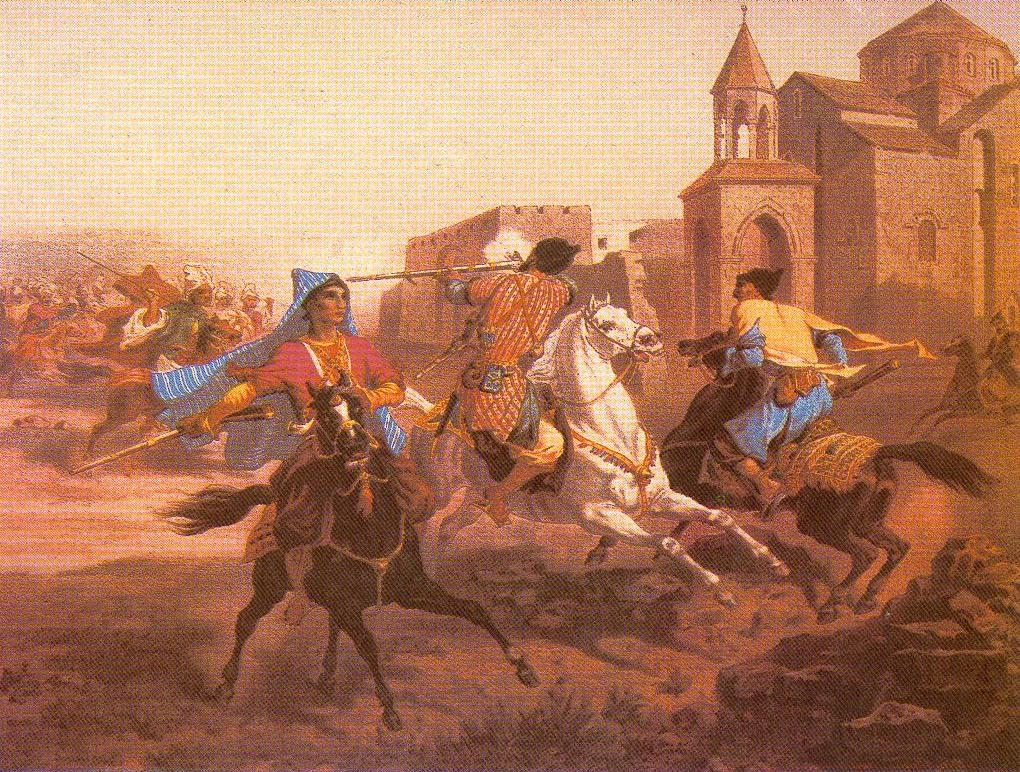 Kurds and Persians attacking Vagharshapat, by Prince Grigory Gagarin, Paris, 1847